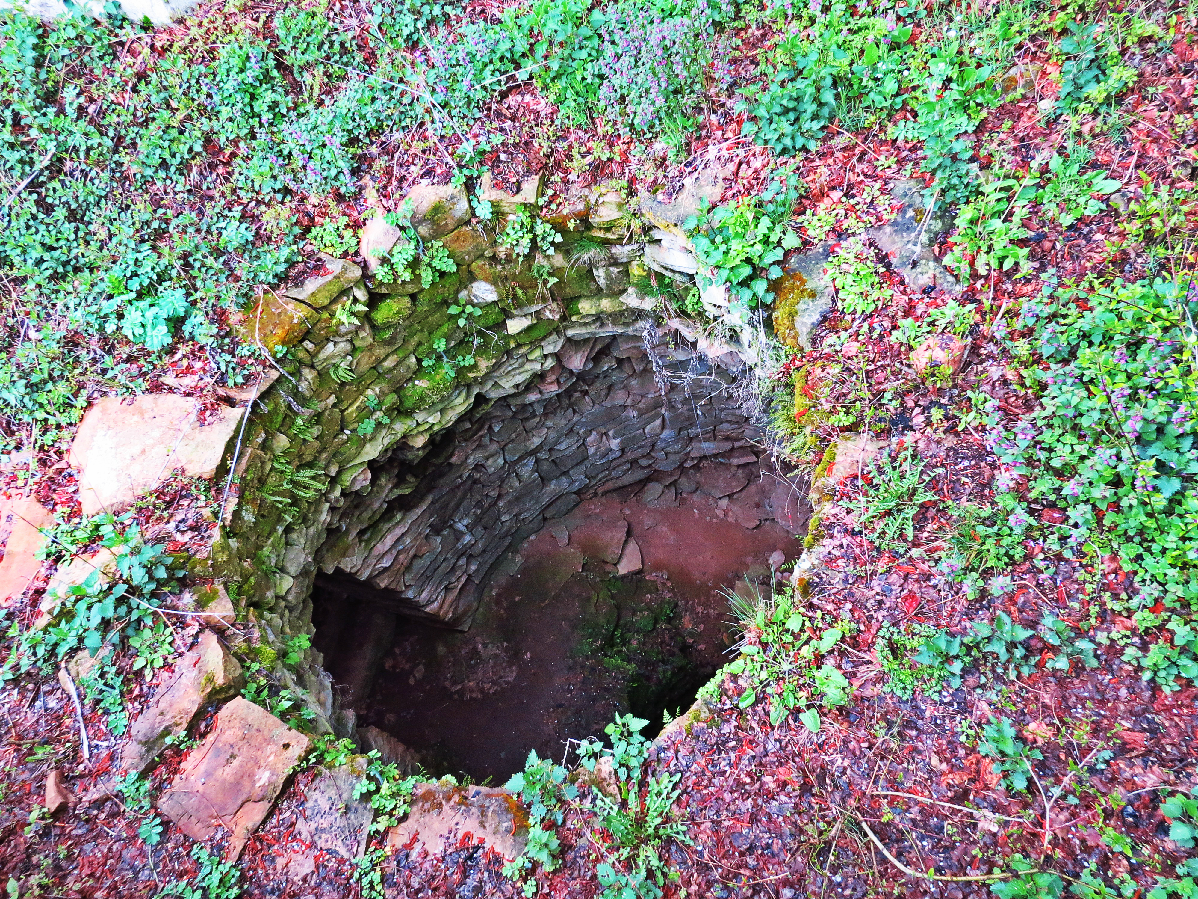 Garlo SWell BG